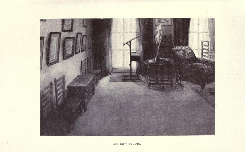 Print for Collections and Reflections by Yoshio Markino of his studio at 39 Redcliffe Kensington South London